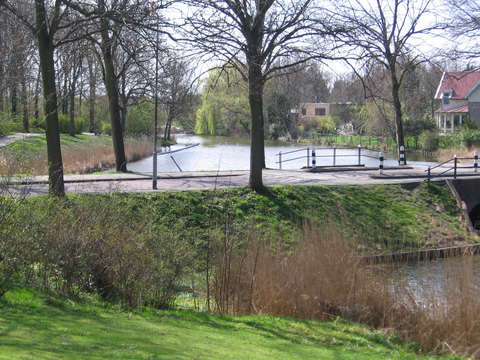 Tholen